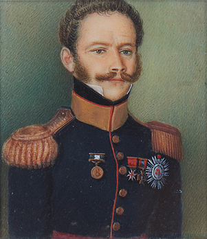 Portrait of a Portuguese Miguelist military officer (Lieutenant Colonel) during the Portuguese Civil War. He wears the Medal of Fidelity to King and Country (Vilafrancada) on his right breast, and on his left breast, a medal of Knight of the Order of Christ, a medal of Officer of the Peninsular War and, possibly, a star of Commander of the Order of Christ (though the cross is not entirely discernible).